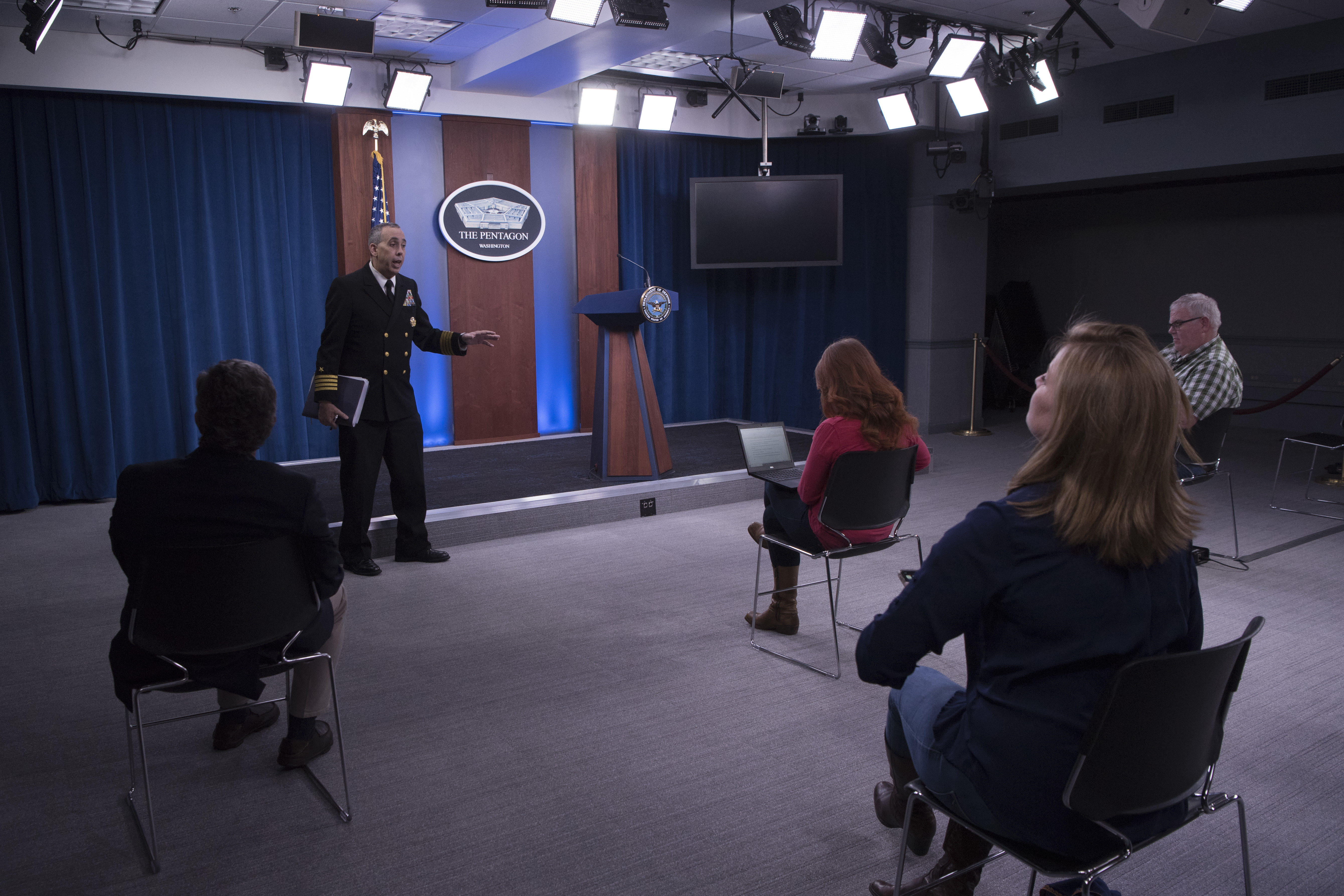 The director of the Defense Department Public Affairs Operations, Navy Capt. Brook DeWalt, speaks to the press at the start of a COVID-19 briefing with the commanding general of the U.S. Army Corps of Engineers, Army Lt. Gen. Todd T. Semonite, at the Pentagon, Washington, D.C., March 27, 2020.